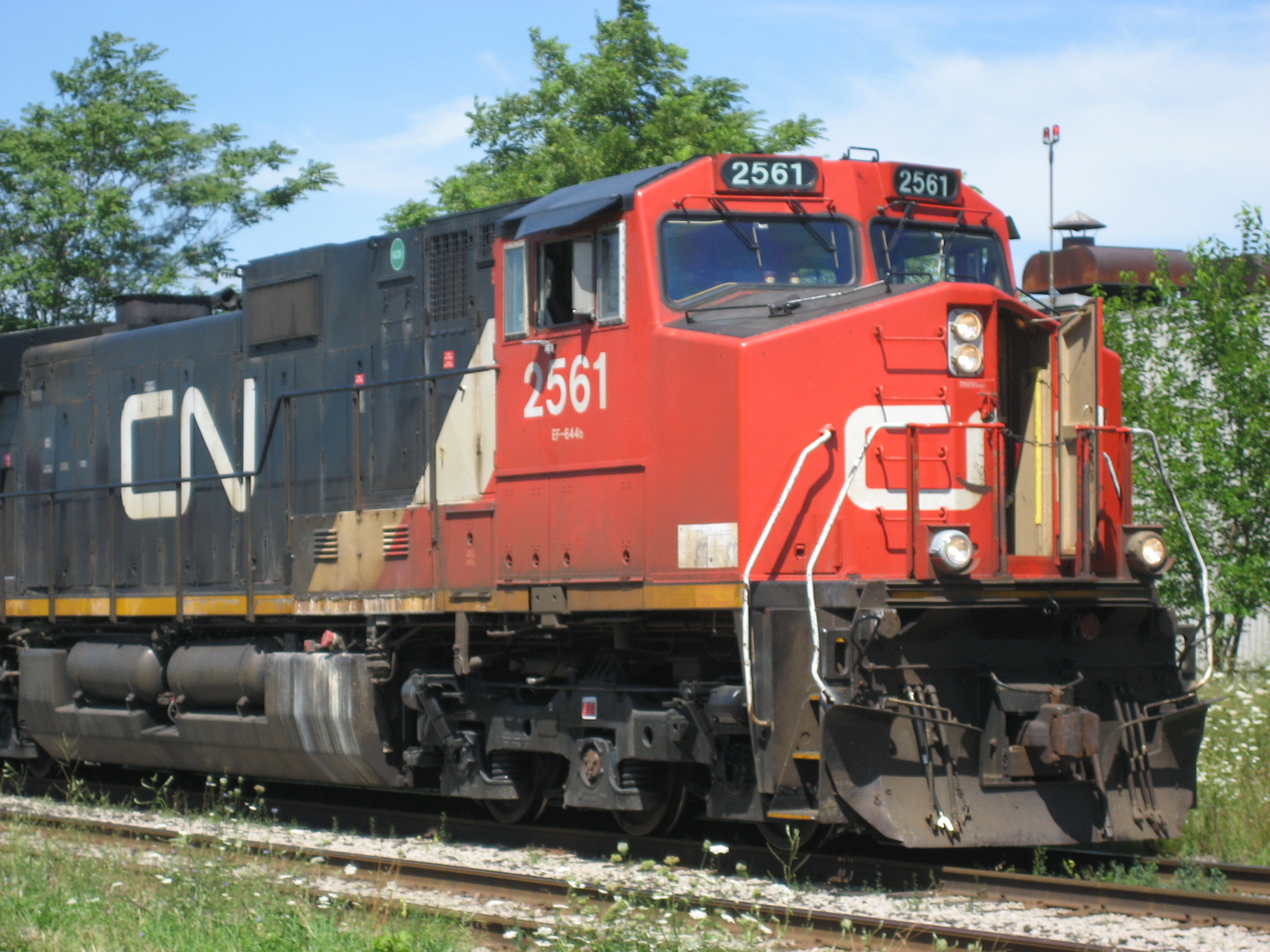 CN Train on CN Railway tracks, Victoria Avenue North, Hamilton, Canada.